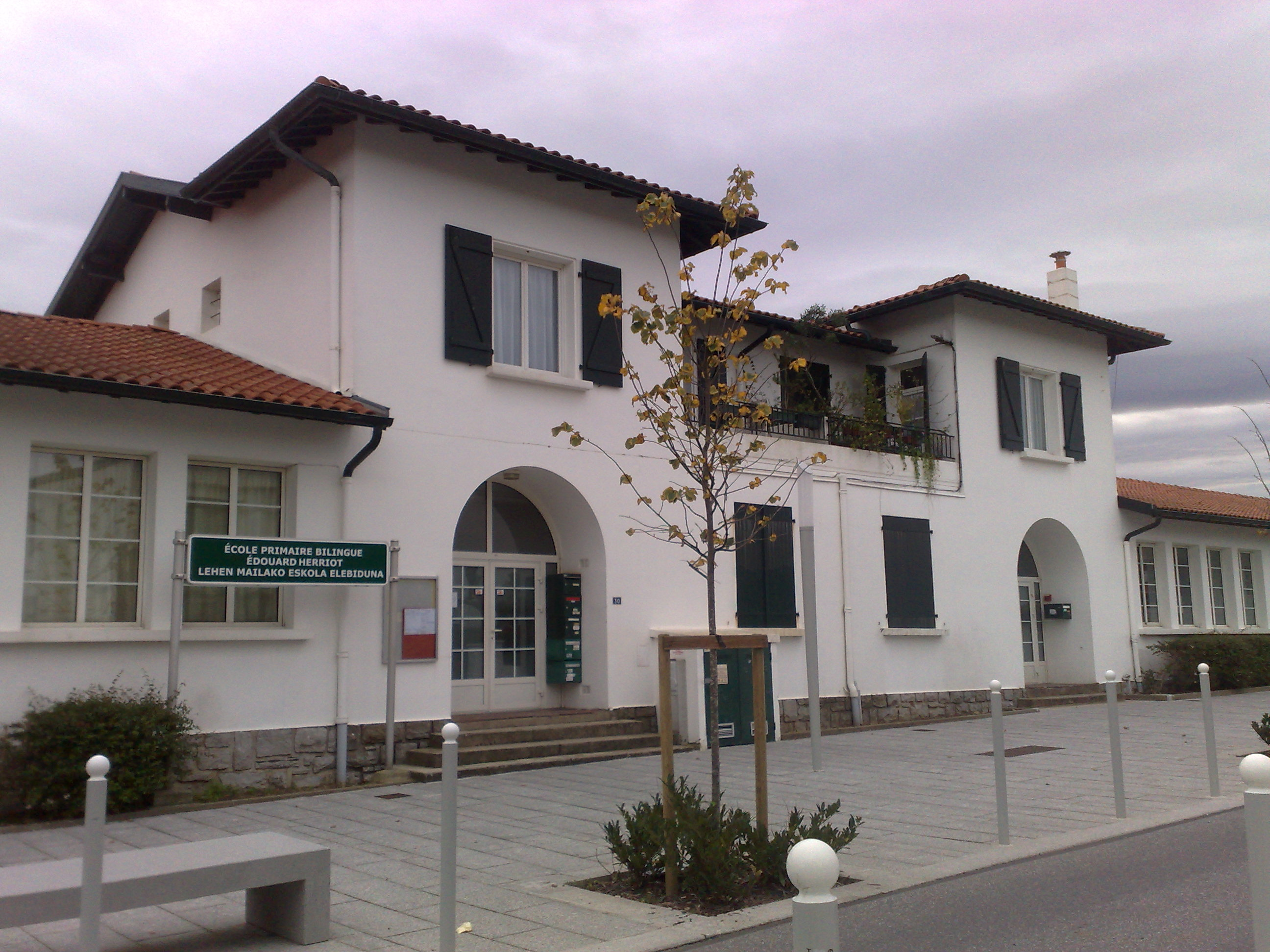 Public bilingual school Édouard Herriot, Chassin neighbourhood, Angelu/Anglet, Lapurdi/Labourd, Basque Country.